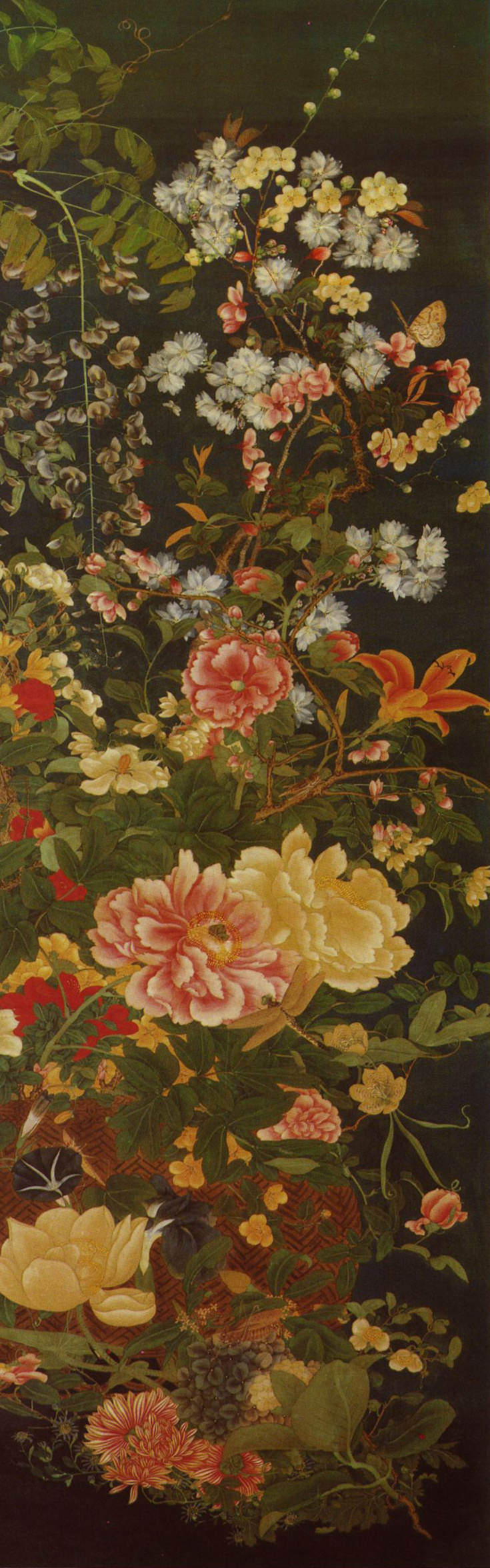 Flowers_and_Insects;genre in Japanese painting